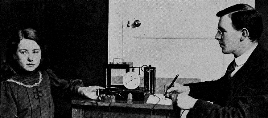 "Mr. Cyril Burt, Psychologist to the London County Council, measuring the speed of the thought of a child with a chronoscope to two-hundredths of a second."